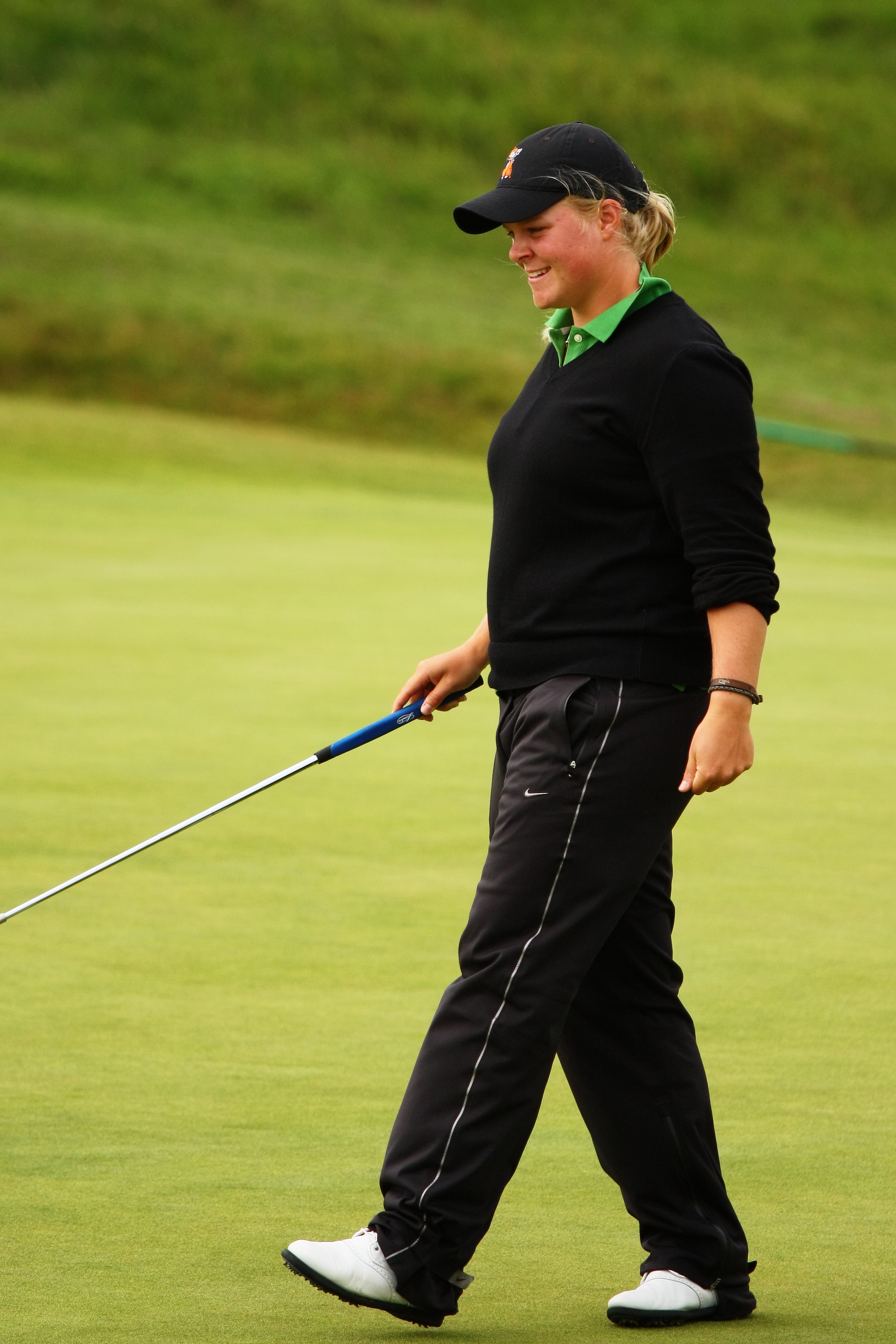 SOUTHPORT, UNITED KINGDOM - JULY 28: Caroline Hedwall of Sweden on the green of the 8th hole during third practice round before 2010 Ricoh Women's British Open held at Royal Birkdale on July 28, 2010 in Southport, England. (Photo by Wojciech Migda)